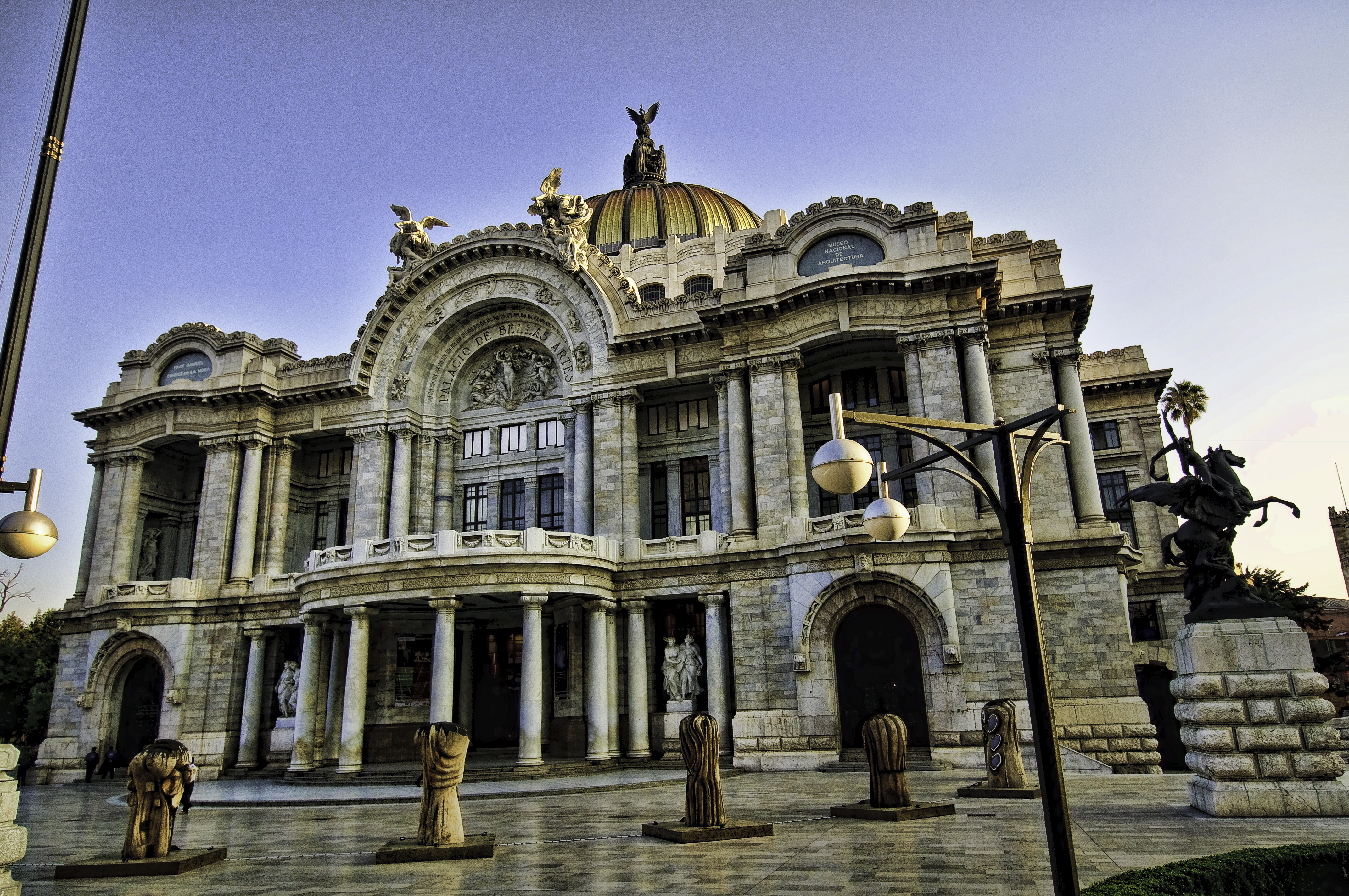 Palacio de Bellas Artes, Mexico, April 2010.